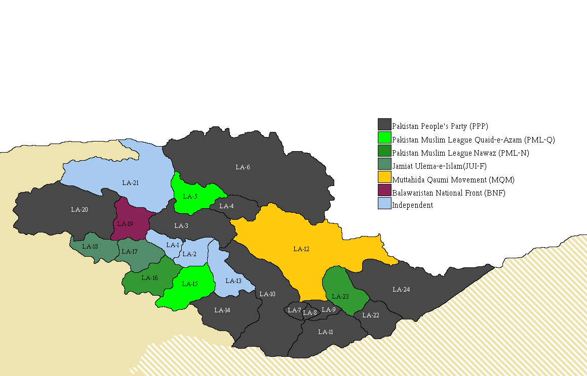 Map of Gilgit Baltistan showing Assembly Constituencies and winning parties